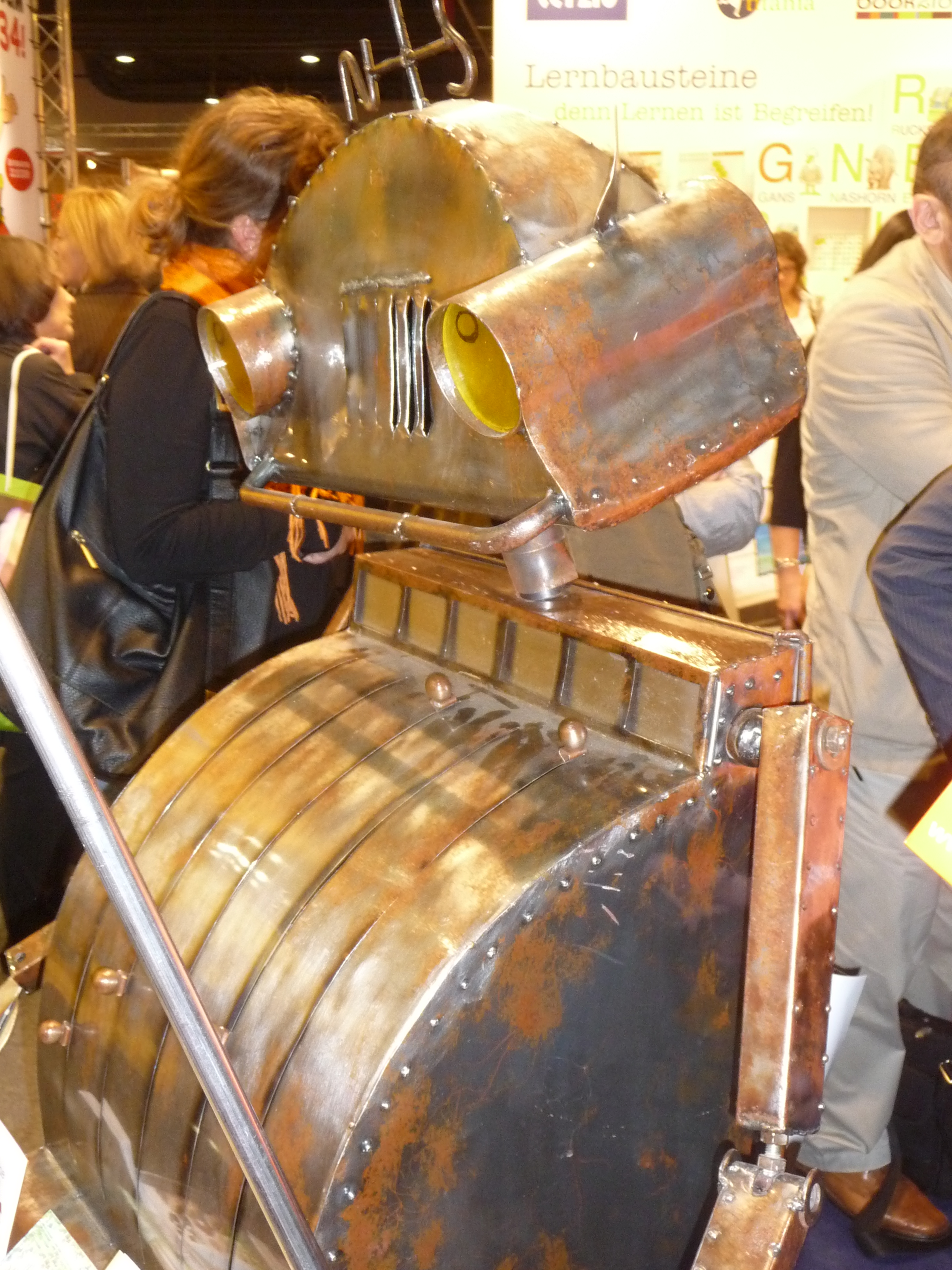 Ritter Rost (Knight Rost resp. Knight Rust)